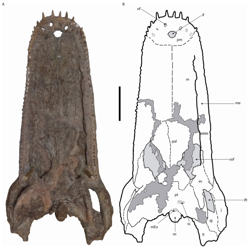 Mourasuchus pattersoni - skull - Urumaco Formation - Venezuela